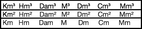 the metric system